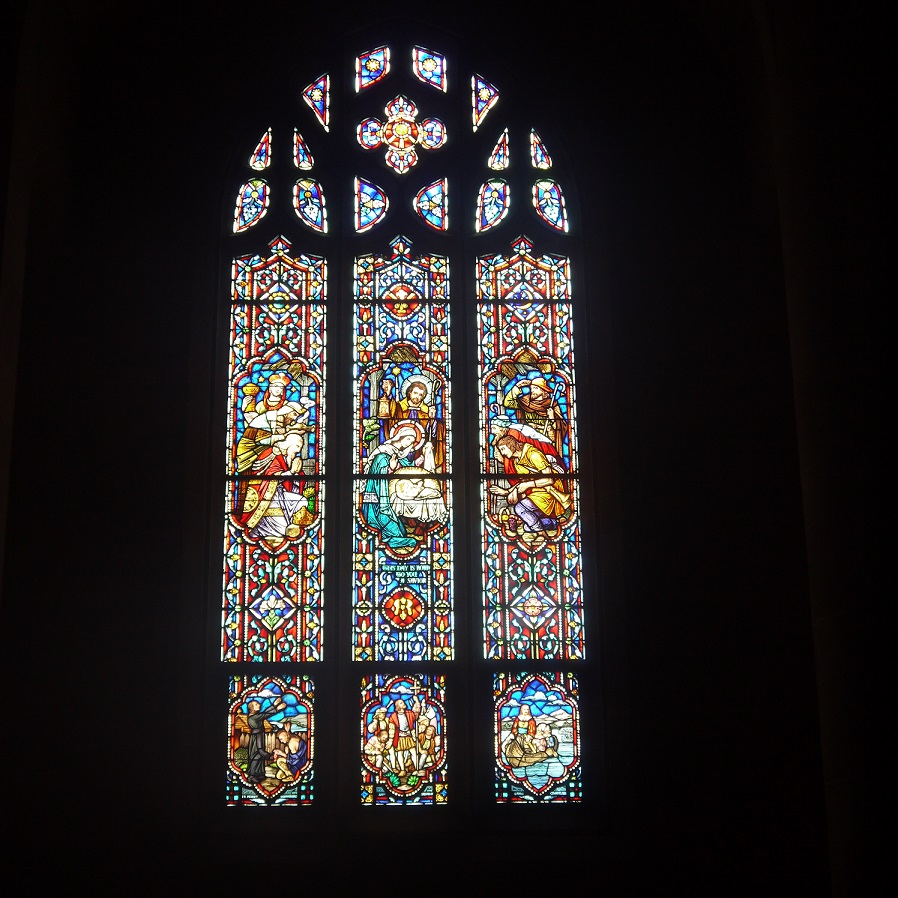 Stained Glass Windows